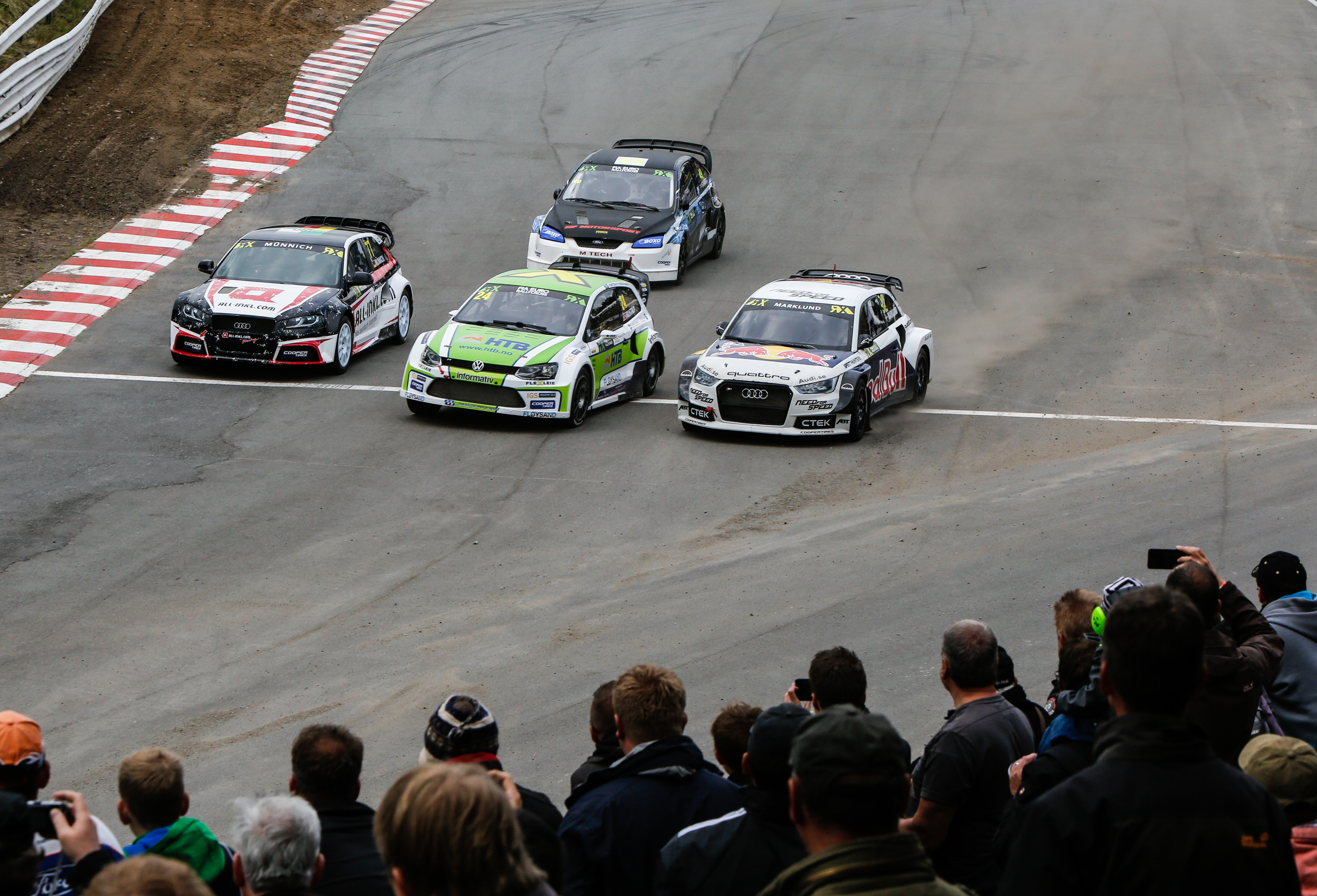 2015 FIA World Rallycross Championship / Round 05, Estering, Germany / June 19-21, 2015 // Worldwide Copyright: Tony Welam/EKS/McKlein